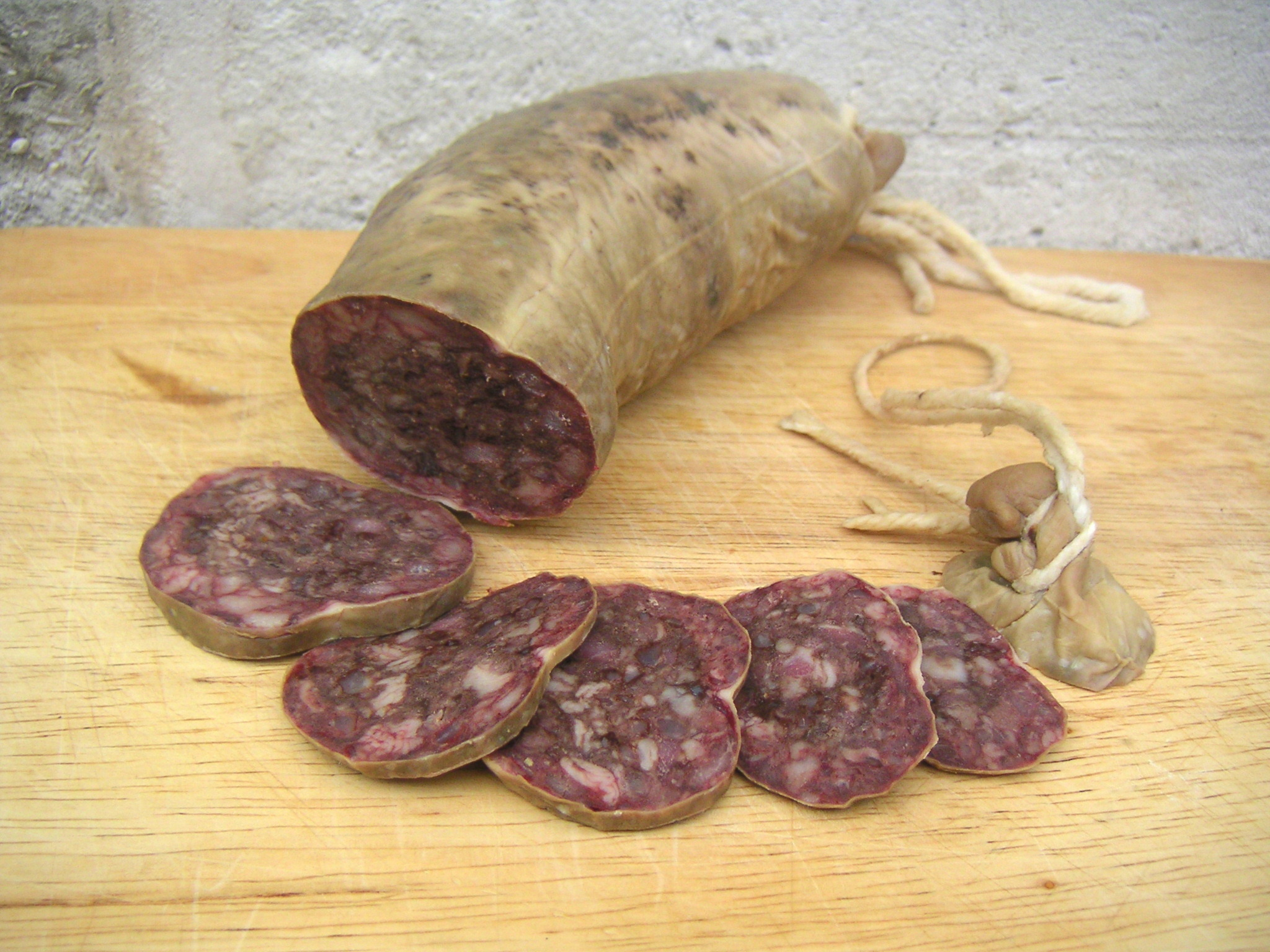 A kinf of large "botifarra" catalane called "bisbe", couped in slices to see inside.